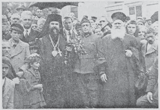 Metropolitan Sofronius of Tarnovo and Ananius Popanastasov in Kumanovo